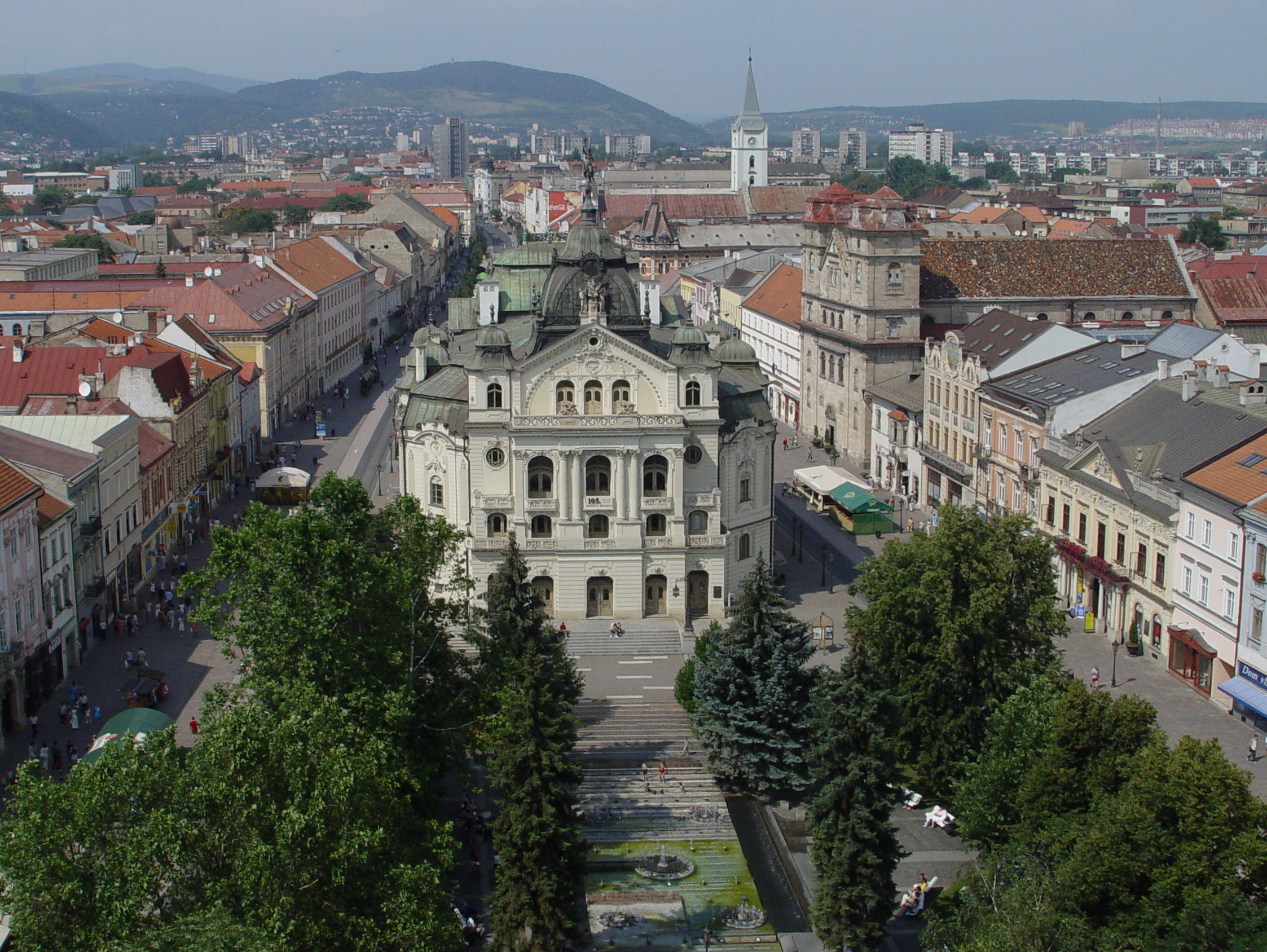 Kosice, Slovakia - State Theatre and Main Street